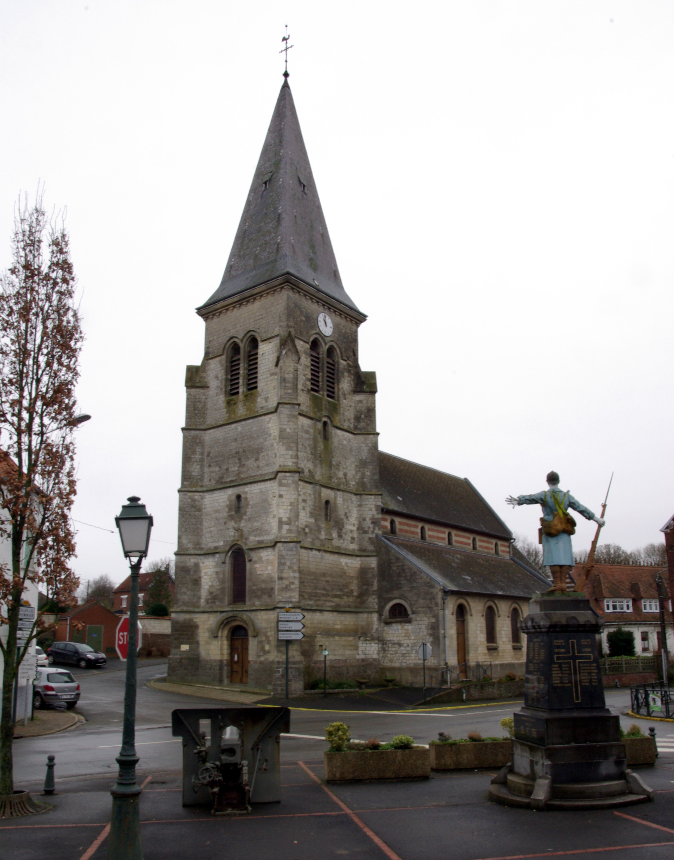 Church of Bienvillers-au-Bois